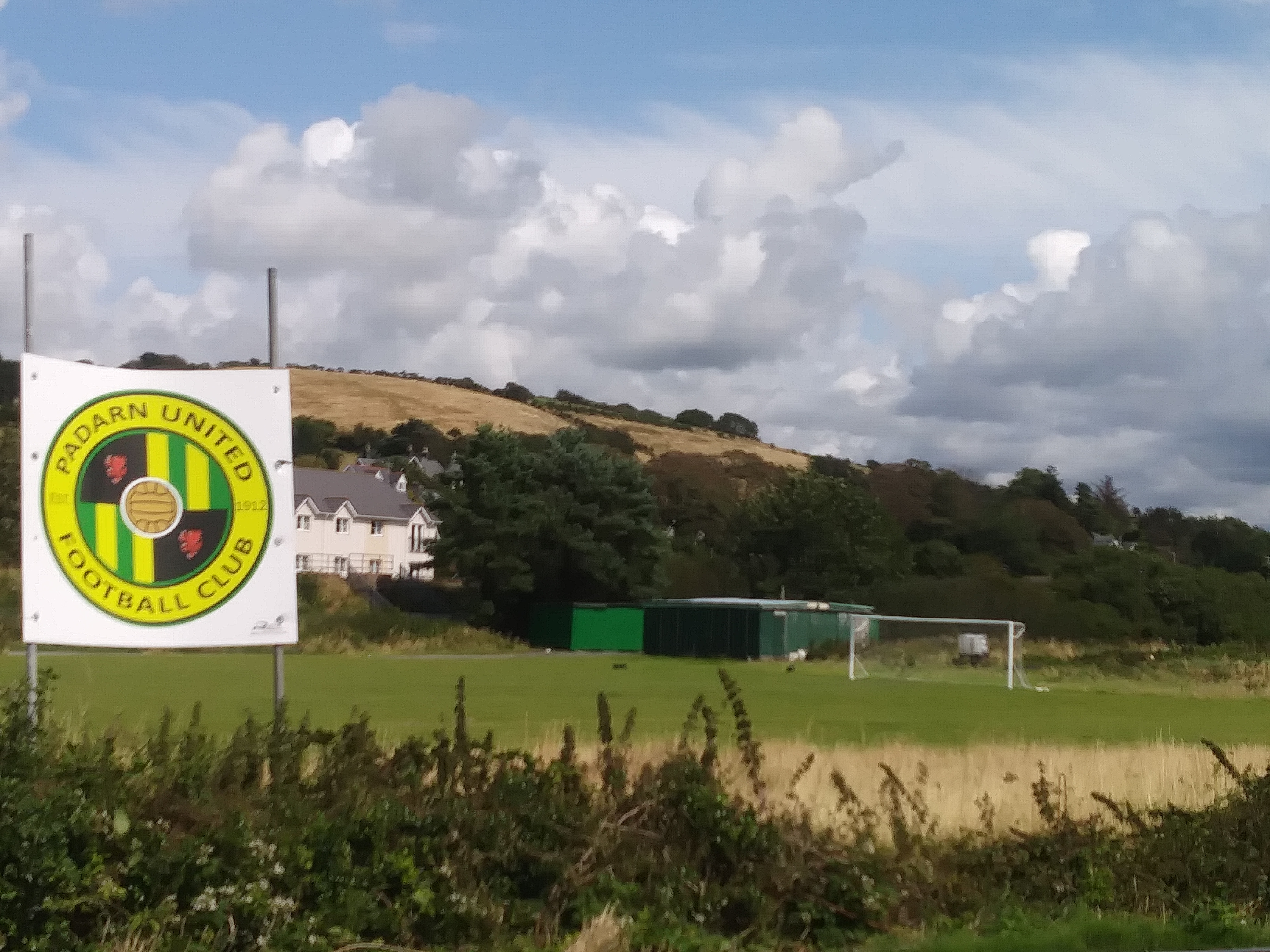 playing field for Padarn United FC, Llanbadarn Fawr, Aberystwyth. August 2019